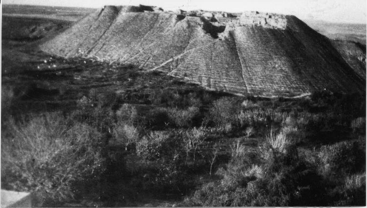 Beit She'an Tel c. 1948